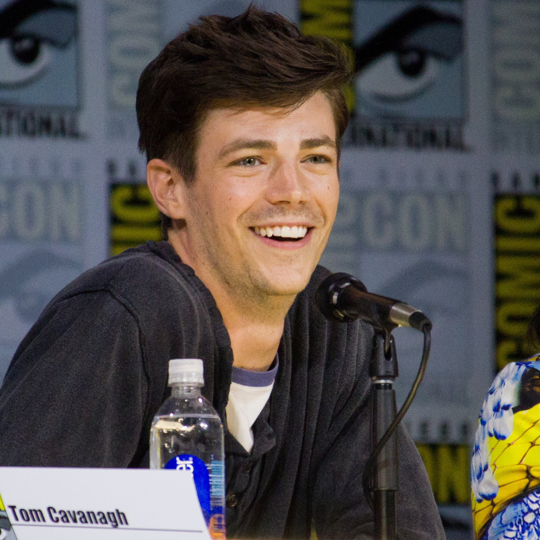 Grant Gustin speaking at the 2017 San Diego Comic Con International, for "The Flash", at the San Diego Convention Center in San Diego, California.